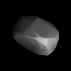 3D convex shape model of 14627 Emilkowalski, computed using light curve inversion techniques. J. Hanuš, J. Ďurech, M. Brož, B. D. Warner (June 2011). "A study of asteroid pole-latitude distribution based on an extended set of shape models derived by the lightcurve inversion method". Astronomy and Astrophysics 530: A134. ISSN 0004-6361. arXiv